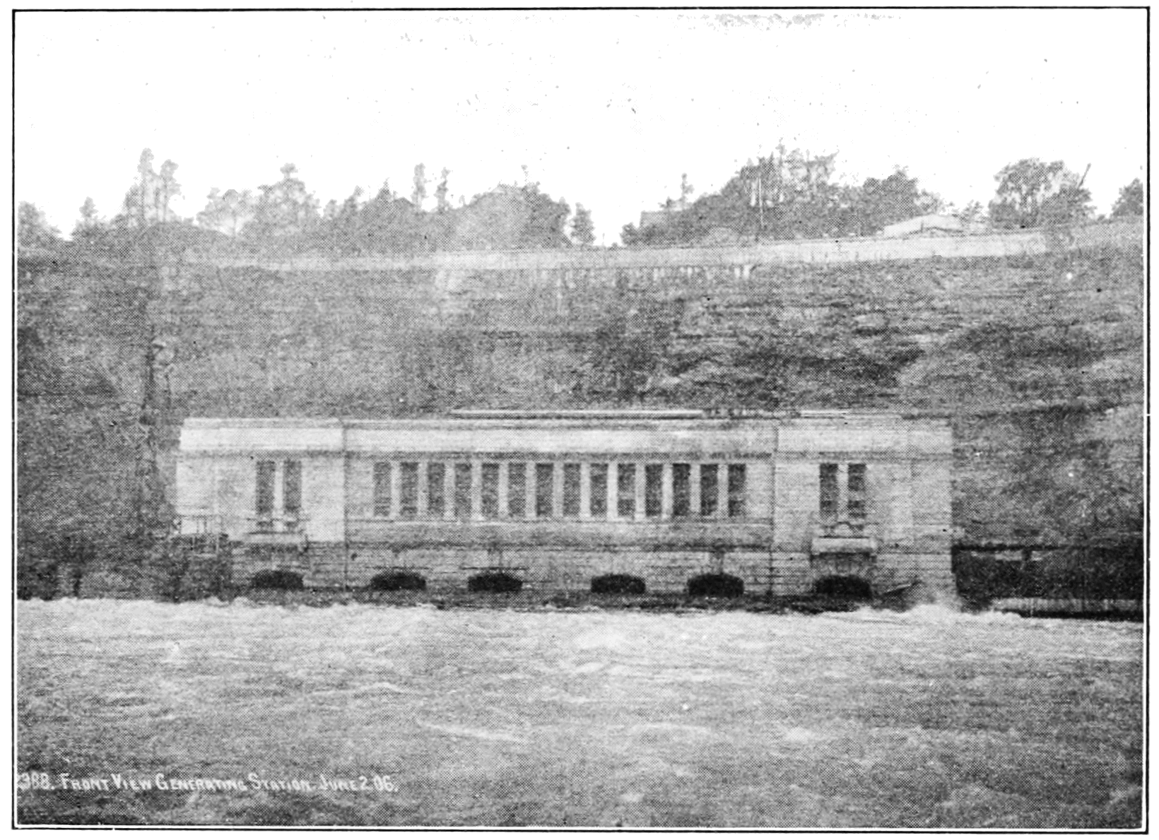 Ontario Power Company at Niagara Falls